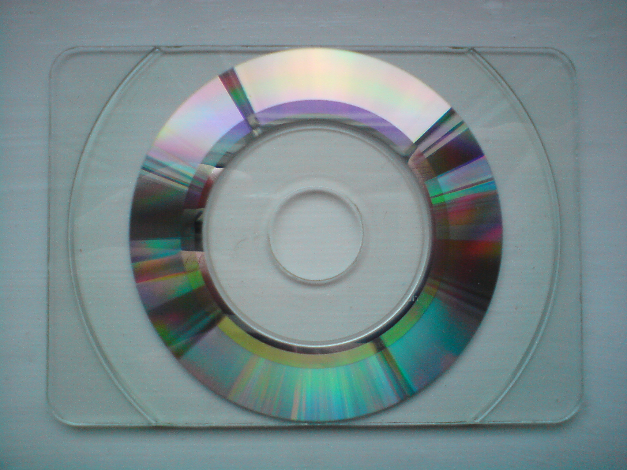 A plain business card mini-CD.